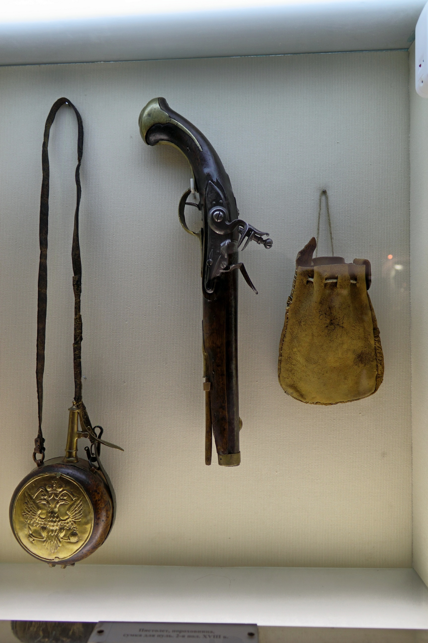 Vladimir. The Vladimir-Suzdal history, architecture and art museum. The museum exposition (Powder box, handgun and bag of bullets. 2nd half of the XVIII century.)